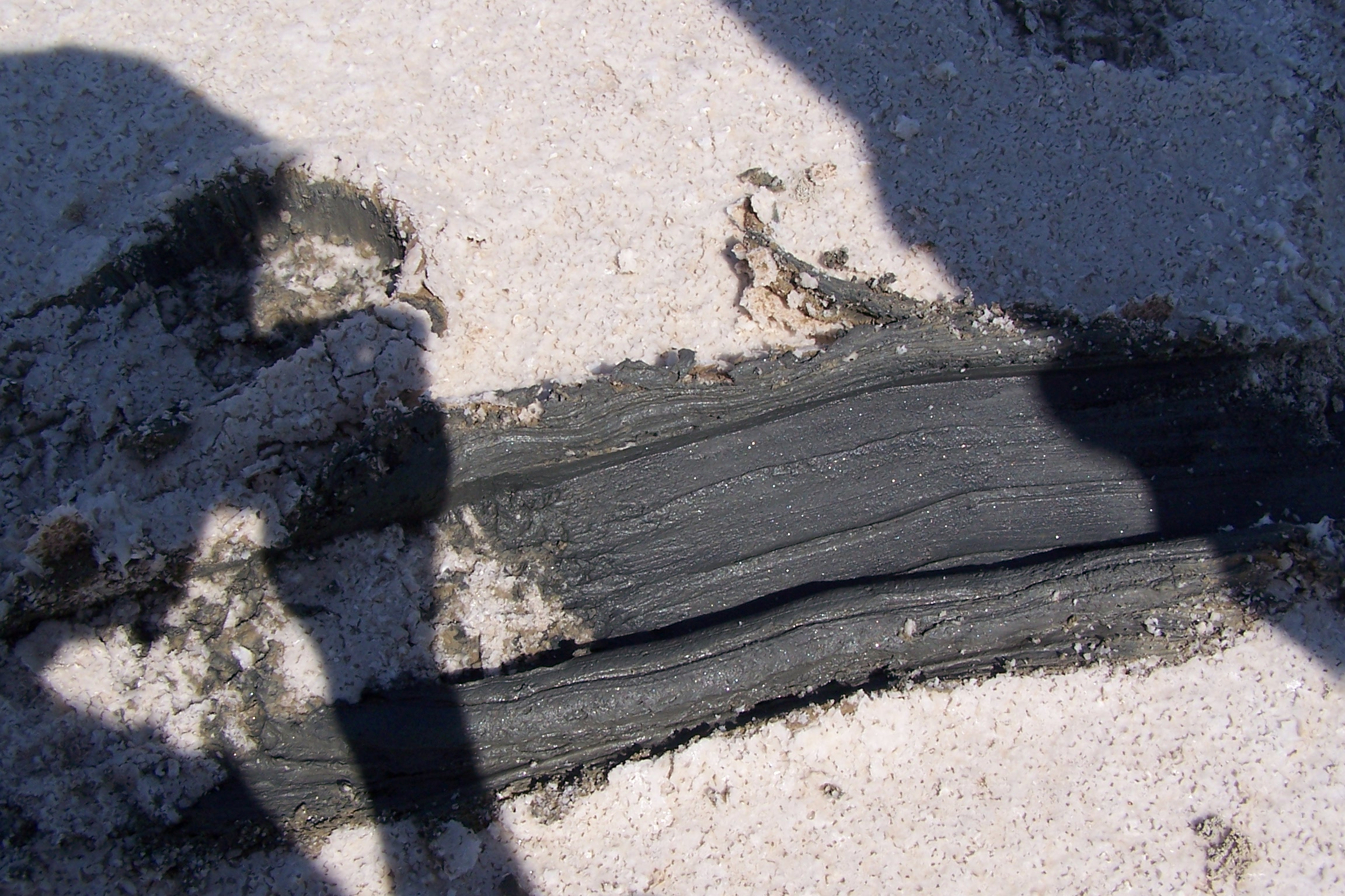 Salt lake of Larnaca; the contaminated sludge under the salt.